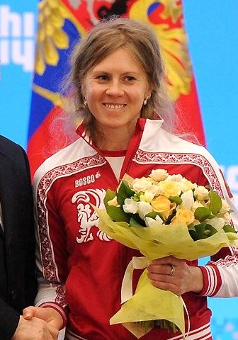 Yana Romanova (1983), biathlete from Russia, in 2014 (cropped from File:Vladimir Putin and Yana Romanova 24 February 2014.jpeg)